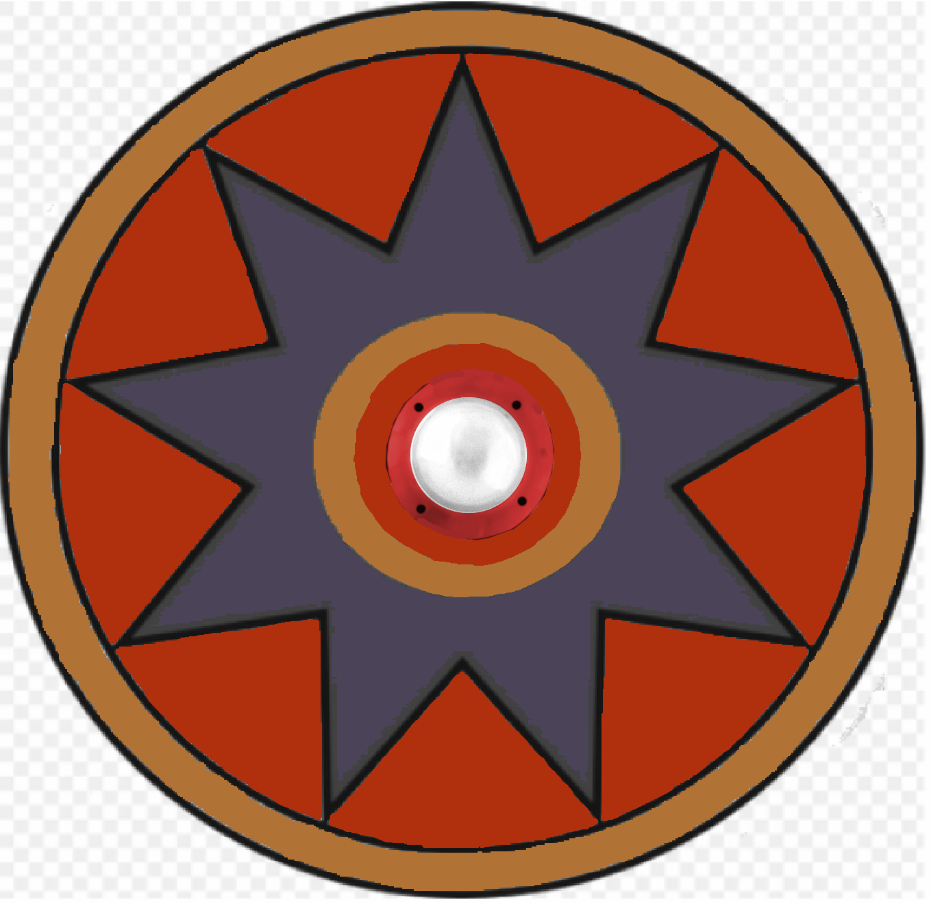 Shield pattern o.t. Ursarienses, a unit of the legiones comitatenses listed in the Magister Peditum's infantry roster, Notitia Dignitatum, 5th century.